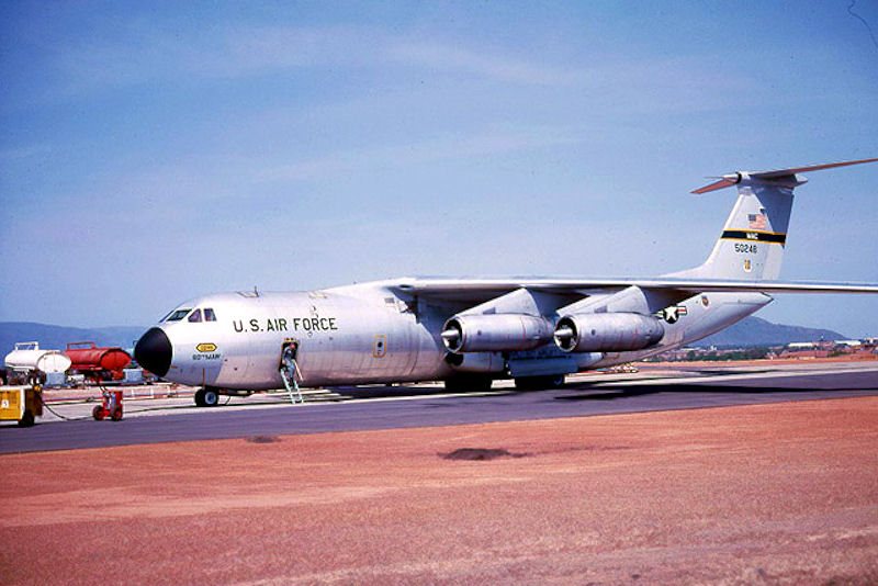 75th Military Airlift Squadron Lockheed C-141A-LM Starlifter 65-0248, about 1966. (c/n 300-6099) Aircraft was converted to C-141B in 1979; C-141C about 2003. Left Robins AFB, Georgia Oct 16, 2003 having had the final C-141 Programmed Depot Maintence (Programmed Depot Maintenance). Was retired to AMARC as CR0224 Apr 19, 2005. Pulled from AMARC and flown to Robins AFB, Georgia in 2005; dissasembled and moved to Museum of Aviation; re-assembled and now on display at museum, restored to 2005 condition, 2006.